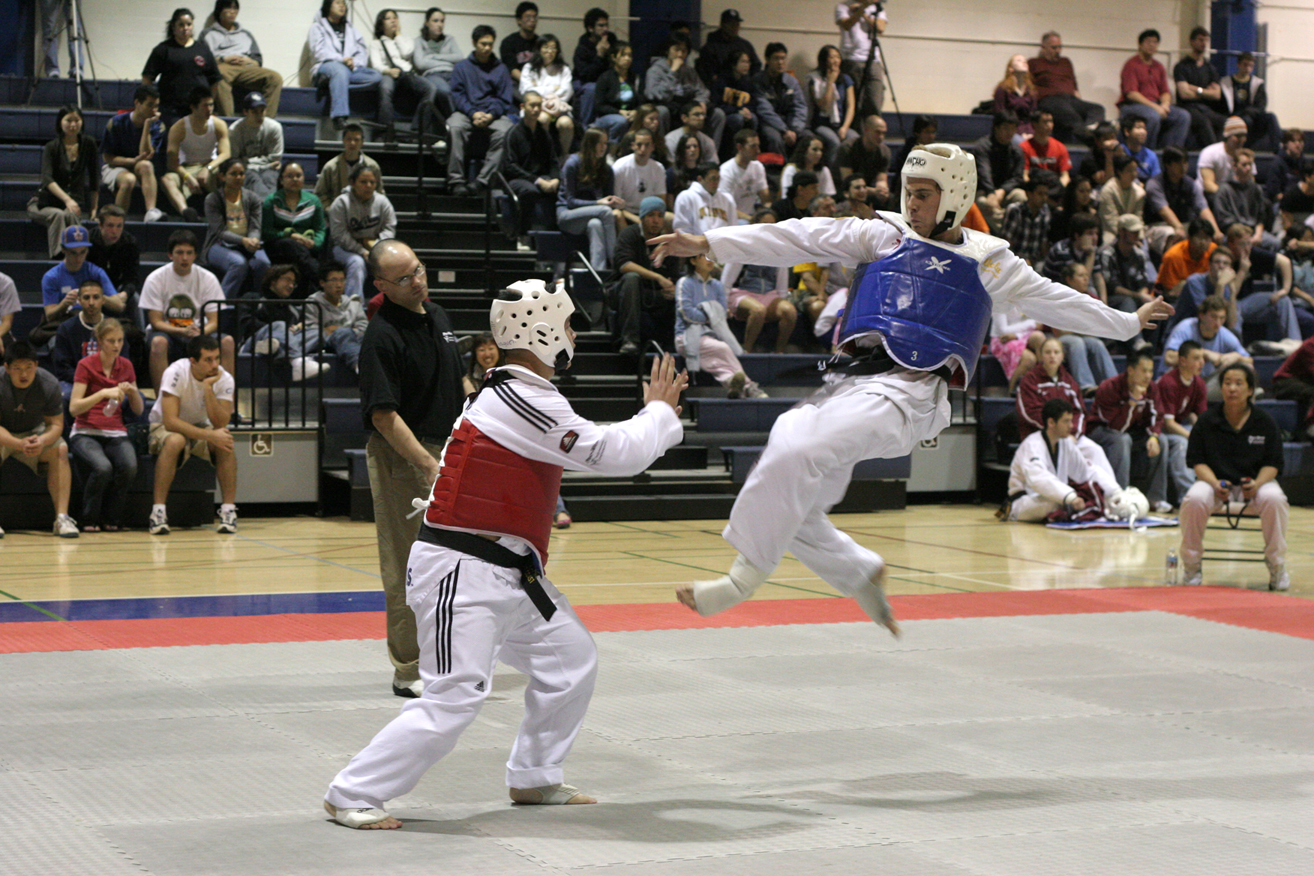 The cover shot for this month's Kicking You In The Face magazine. Best viewed large.